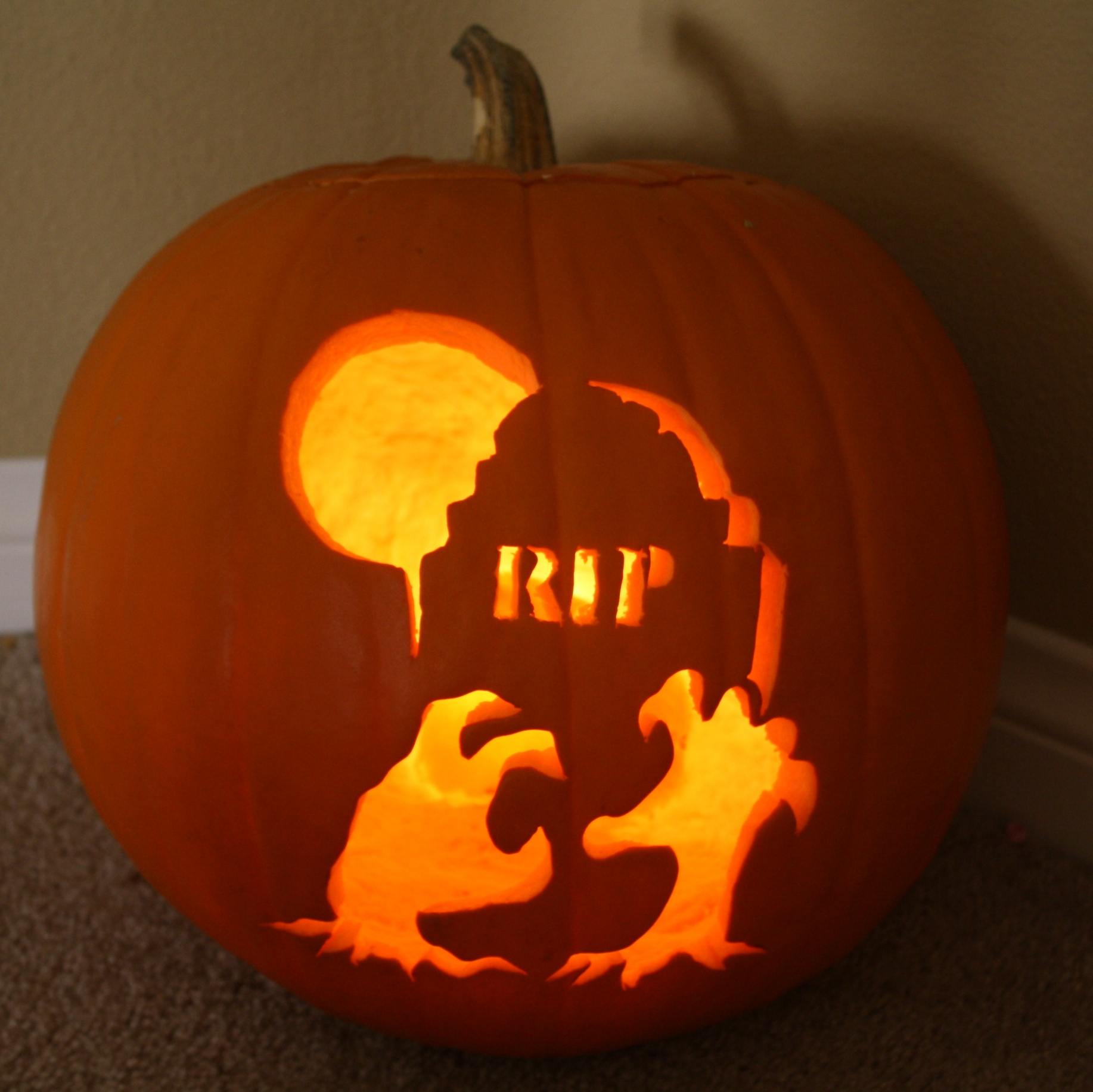 Pumkin masters pattern "R.I.P.'em up"